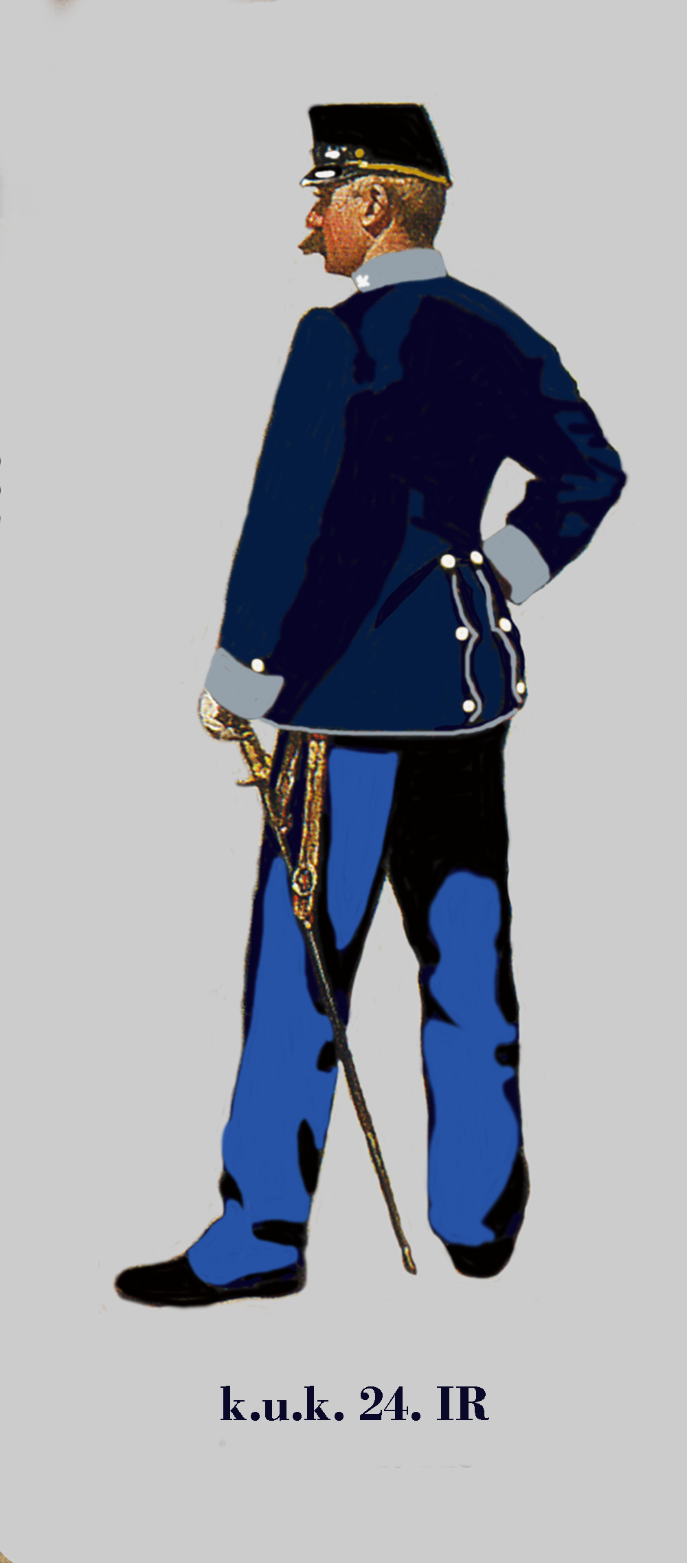 Lieutenant of the Austria-Hungarian (k.u.k.). 24th german Infantry Regiment in Service dress 1914